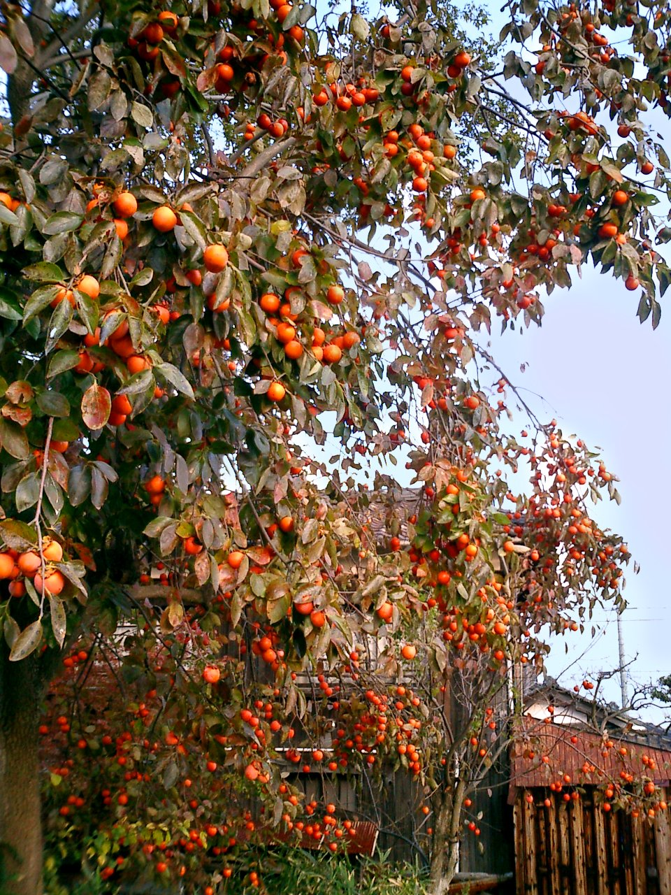 Kaki, persimmon